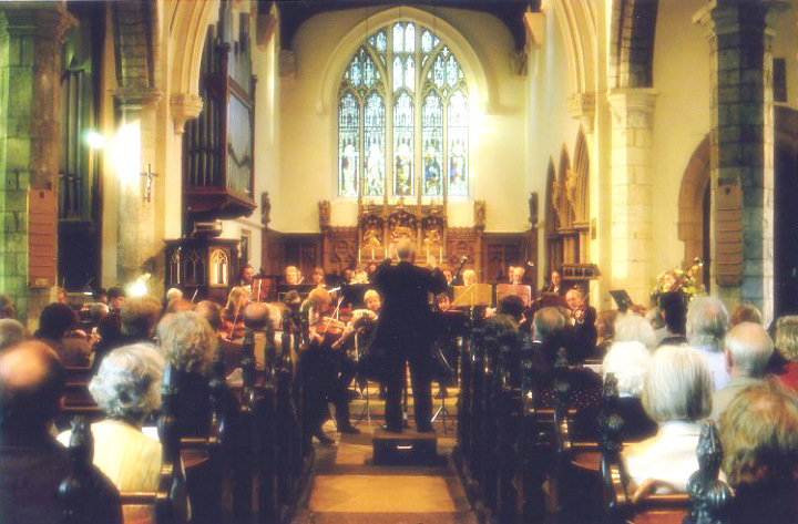 Photo of Academy of St Olave's Orchestra playing concert in York in June 2007